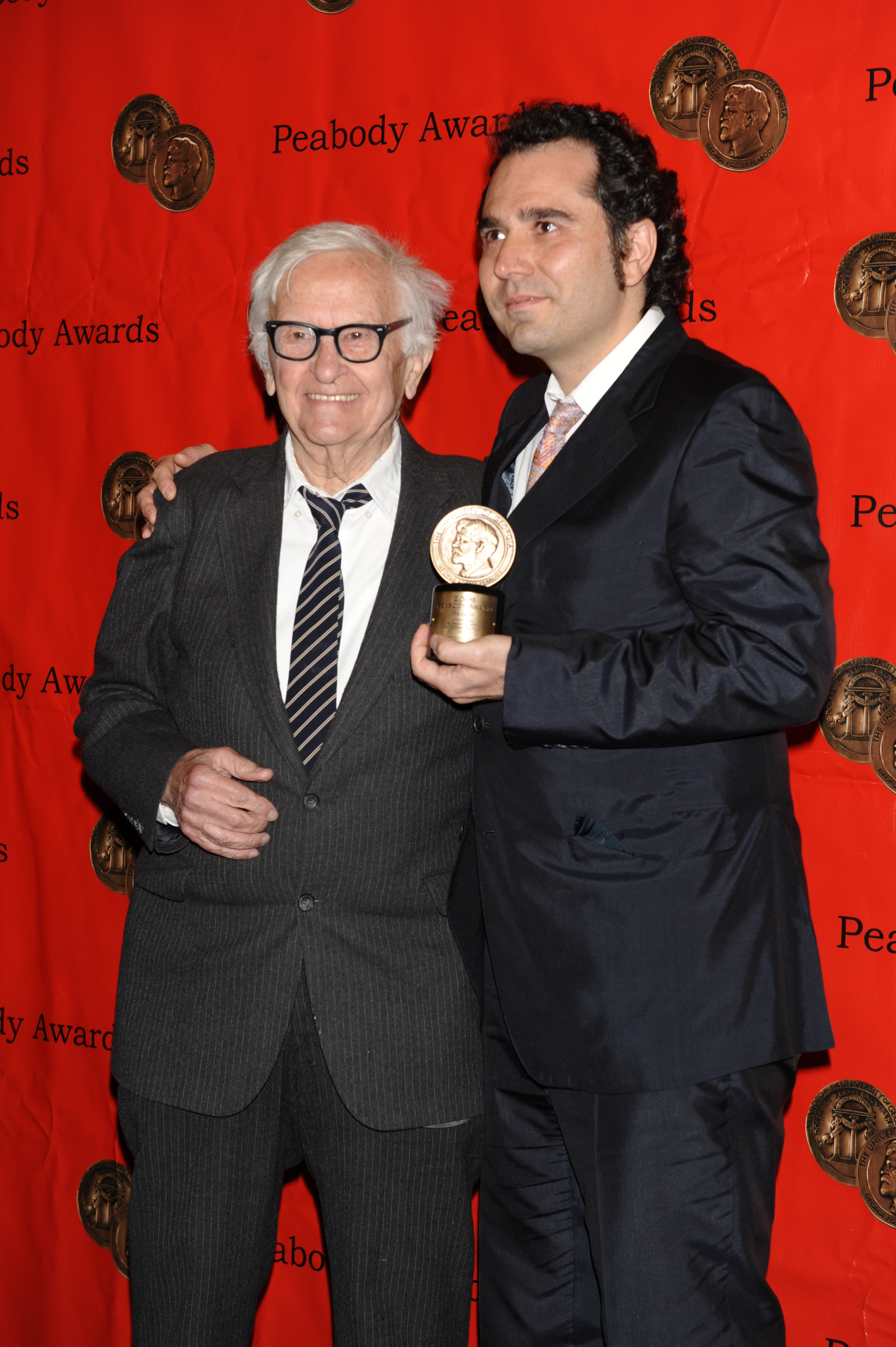 PHOTO CREDIT: ANDERS KRUSBERG / PEABODY AWARDS Al Maysles and Antonio Ferrera 68th Annual Peabody Awards Luncheon Waldorf=Astoria Hotel New York, NY USA May 18, 2009